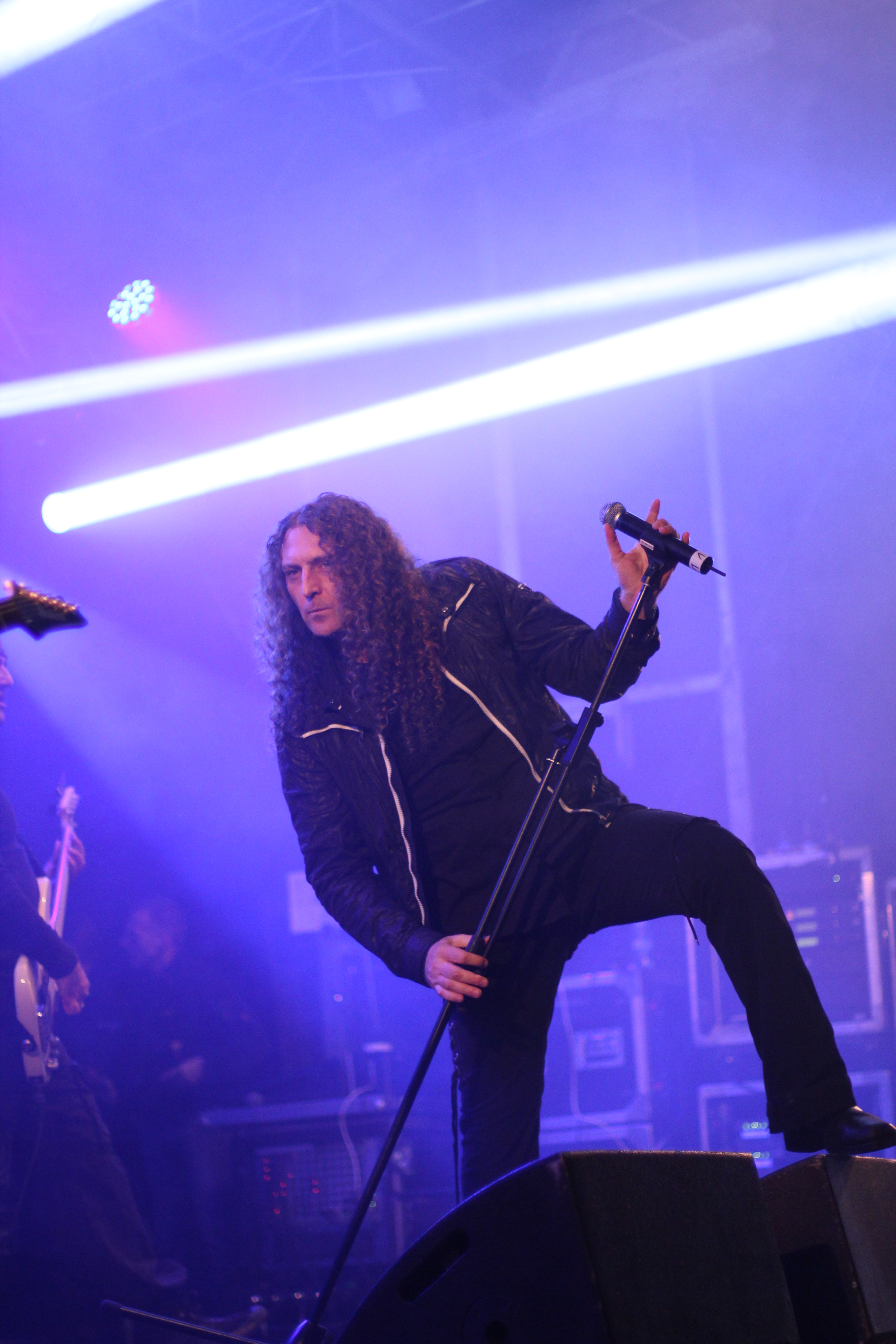 The Italian power metal band Rhapsody of Fire at the Rockharz Open Air 2014 in Ballenstedt/Germany